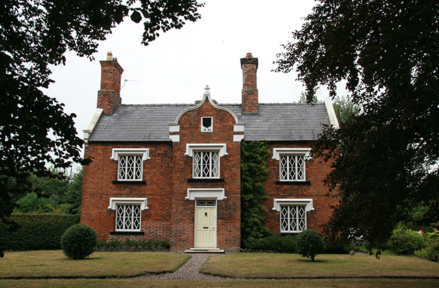 Snugbury's Ice-Cream Farm. This is the very attractive farmhouse of Snugbury's Icecream Farm, Hurleston, Cheshire. They make delicious Cheshire ice-cream!